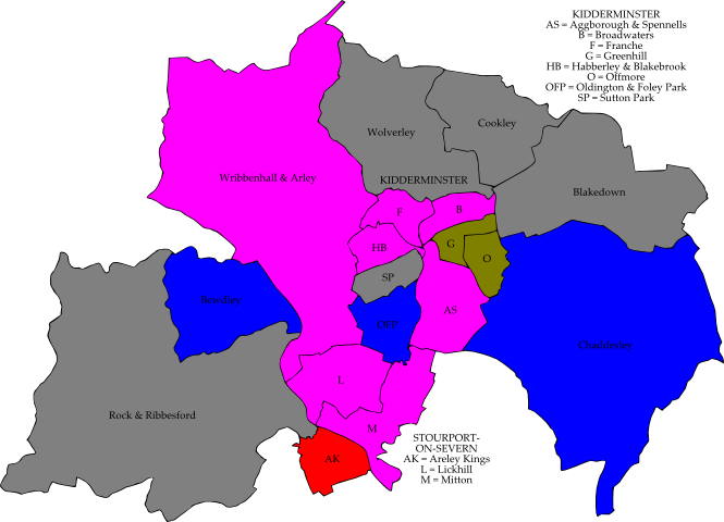 Map of Wyre Forest, Worcestershire, UK showing the results of the 2002 local elections. Colours: Health Concern Conservative Liberal Labour Wards in grey were not contested in 2002.